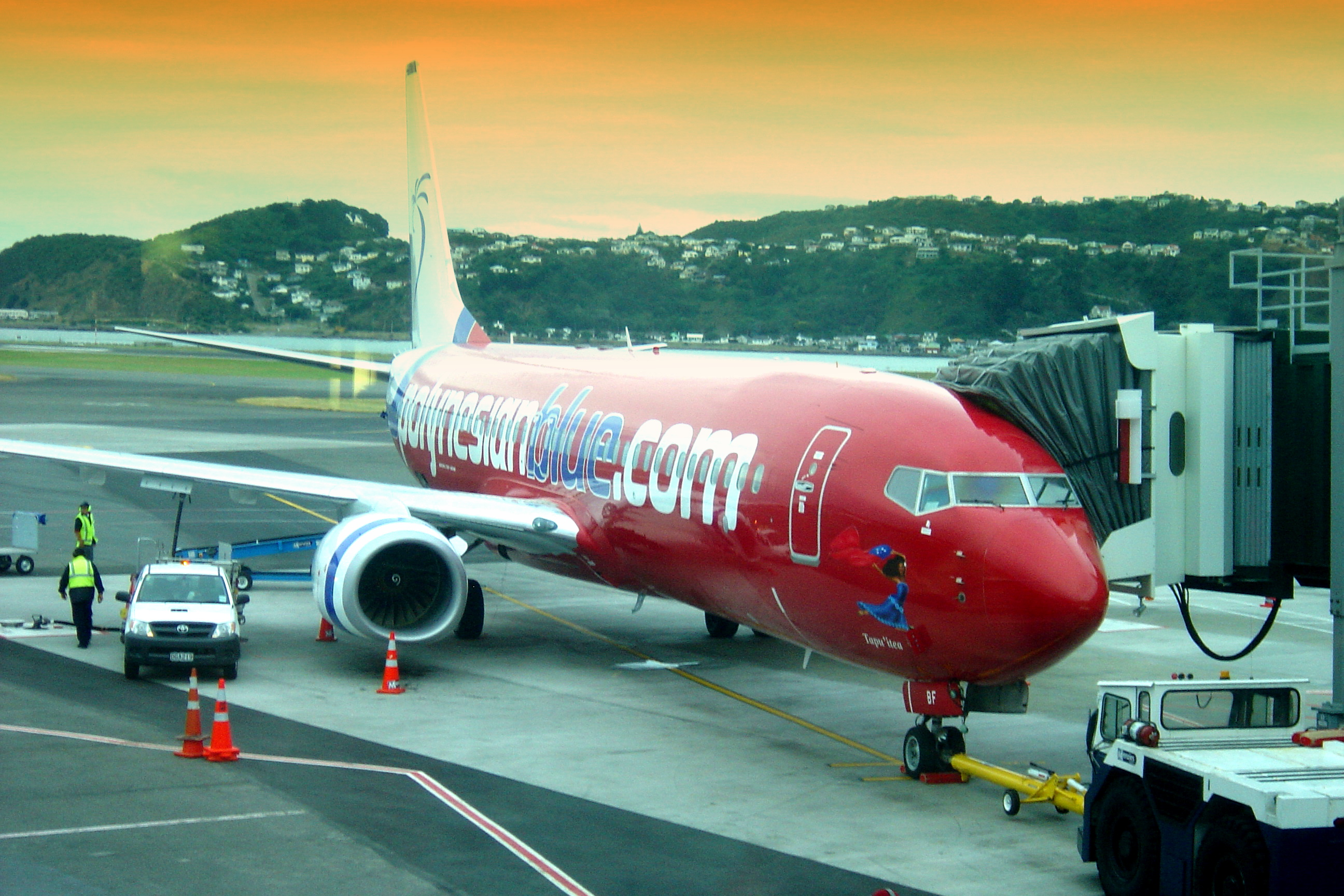 Polynesian Blue Boeing 737-800 (ZK-PBF, "Tepu'itea") at Wellington Airport, Wellington, New Zealand.